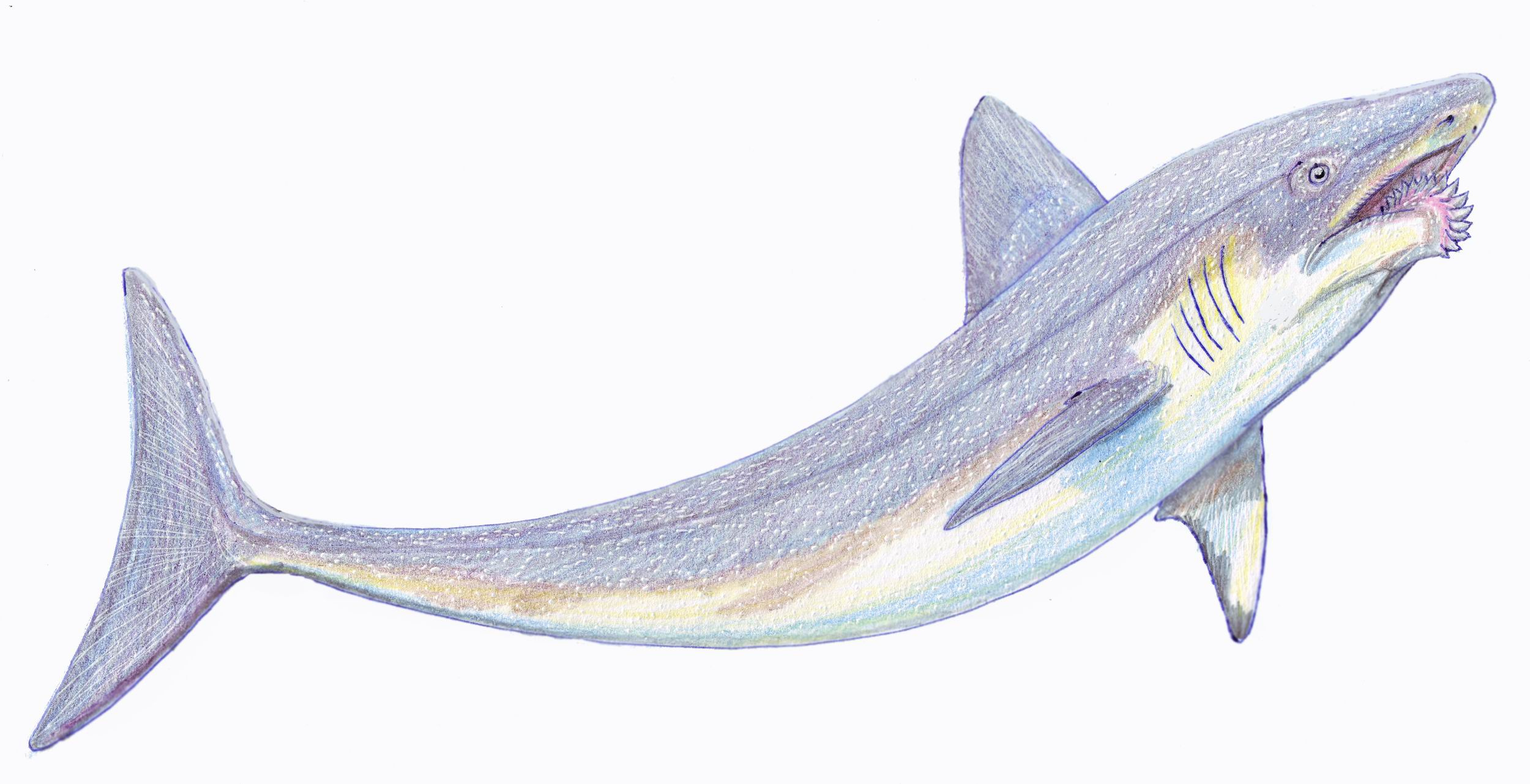 Helicoprion ferreri - alternative restoration of eugeneodontid "shark" with short rostrum. Permian of North America.